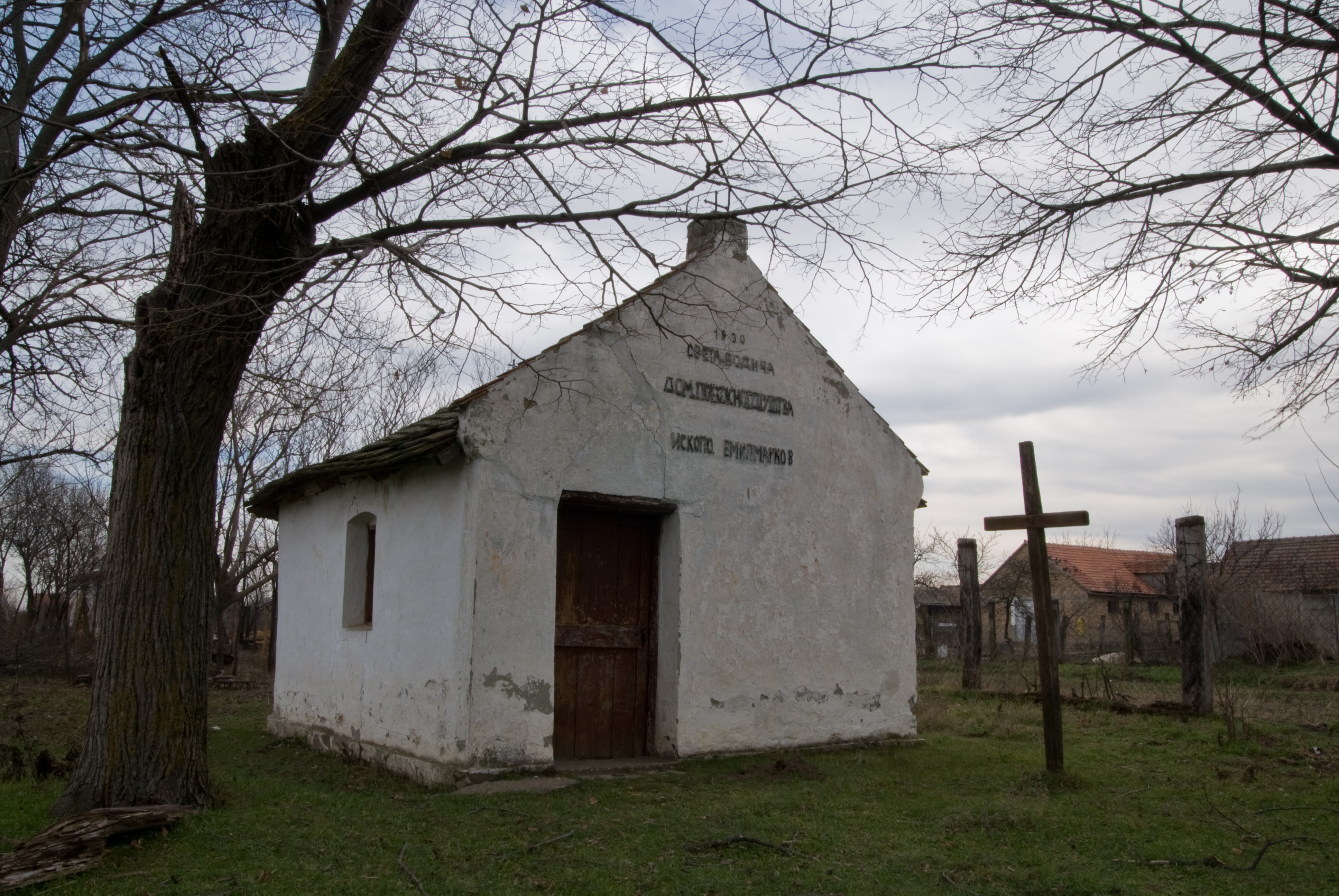 "Vodica Silaska Svetog Duha"- Trinity in Samoš, Kovačica